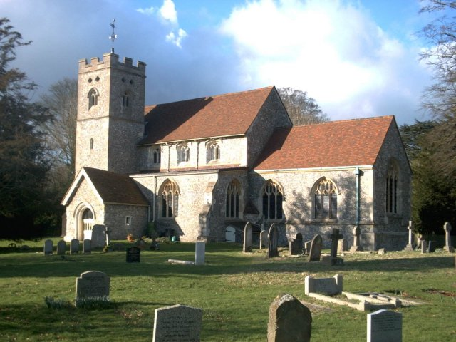 Church of England parish church of St Mary Magdelene, Great Hampden, Buckinghamshire: view from the south